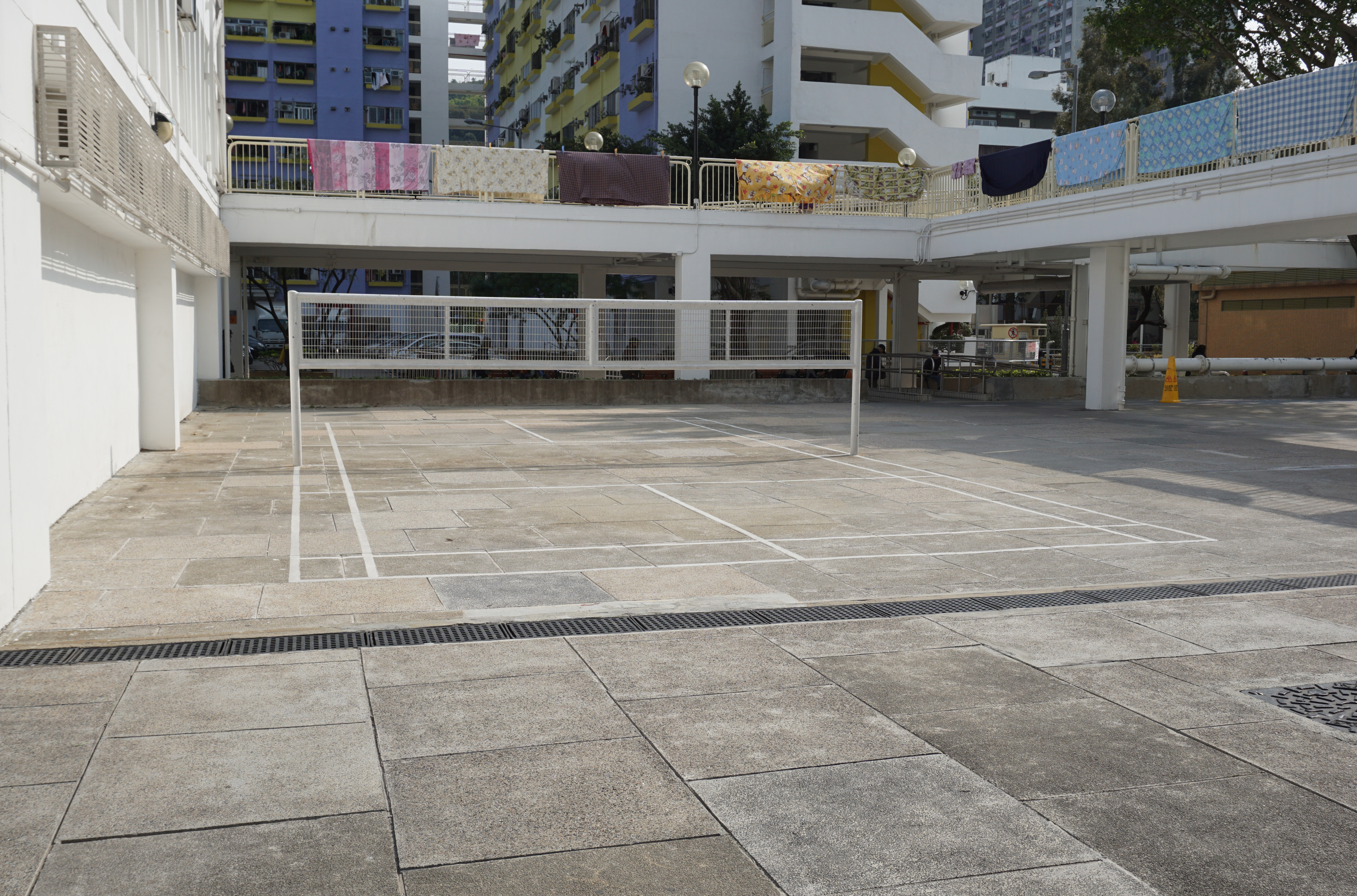 Jat Min Chuen in Sha Tin Wai, Hong Kong.